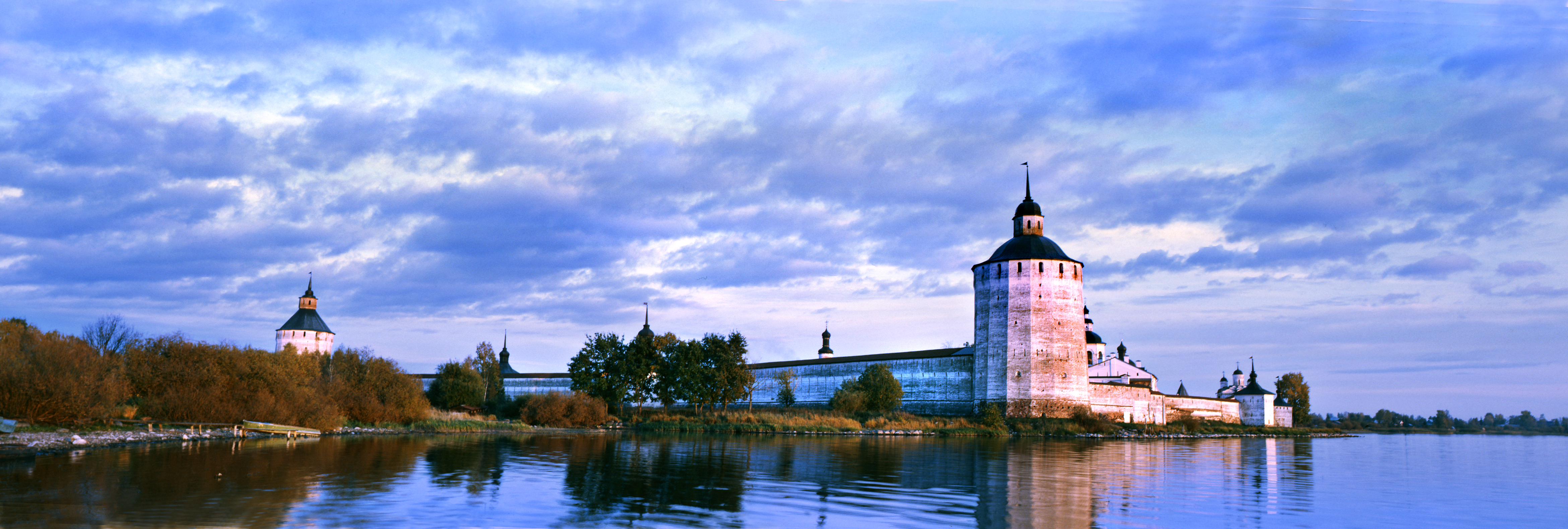 Cyril-Belozersky Monastery. Russia.